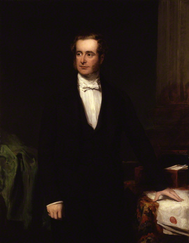 Henry Pelham-Clinton, 5th Duke of Newcastle (1811–1864)